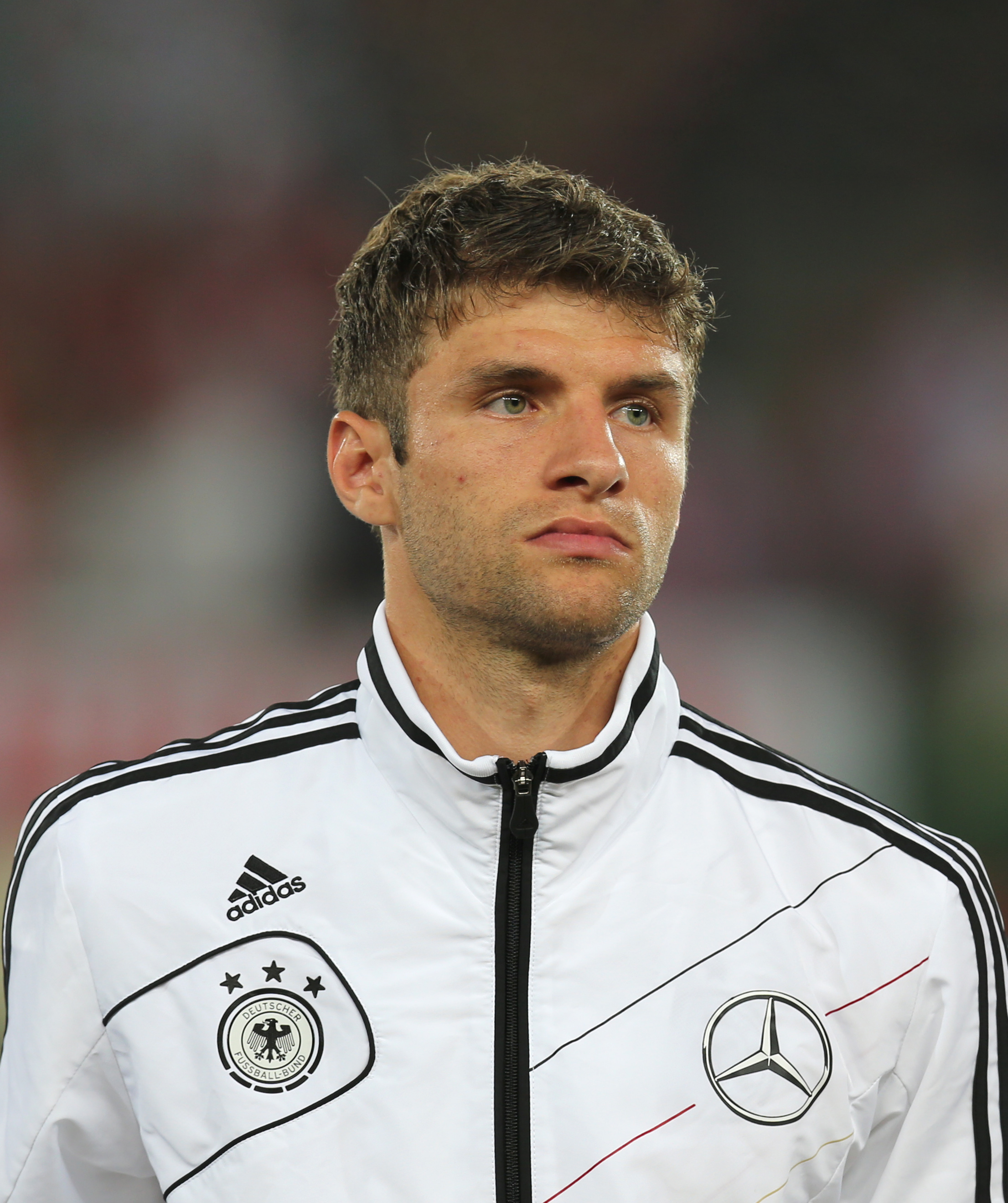 Thomas Müller at the 2014 FIFA qualification round, Austria vs. Germany